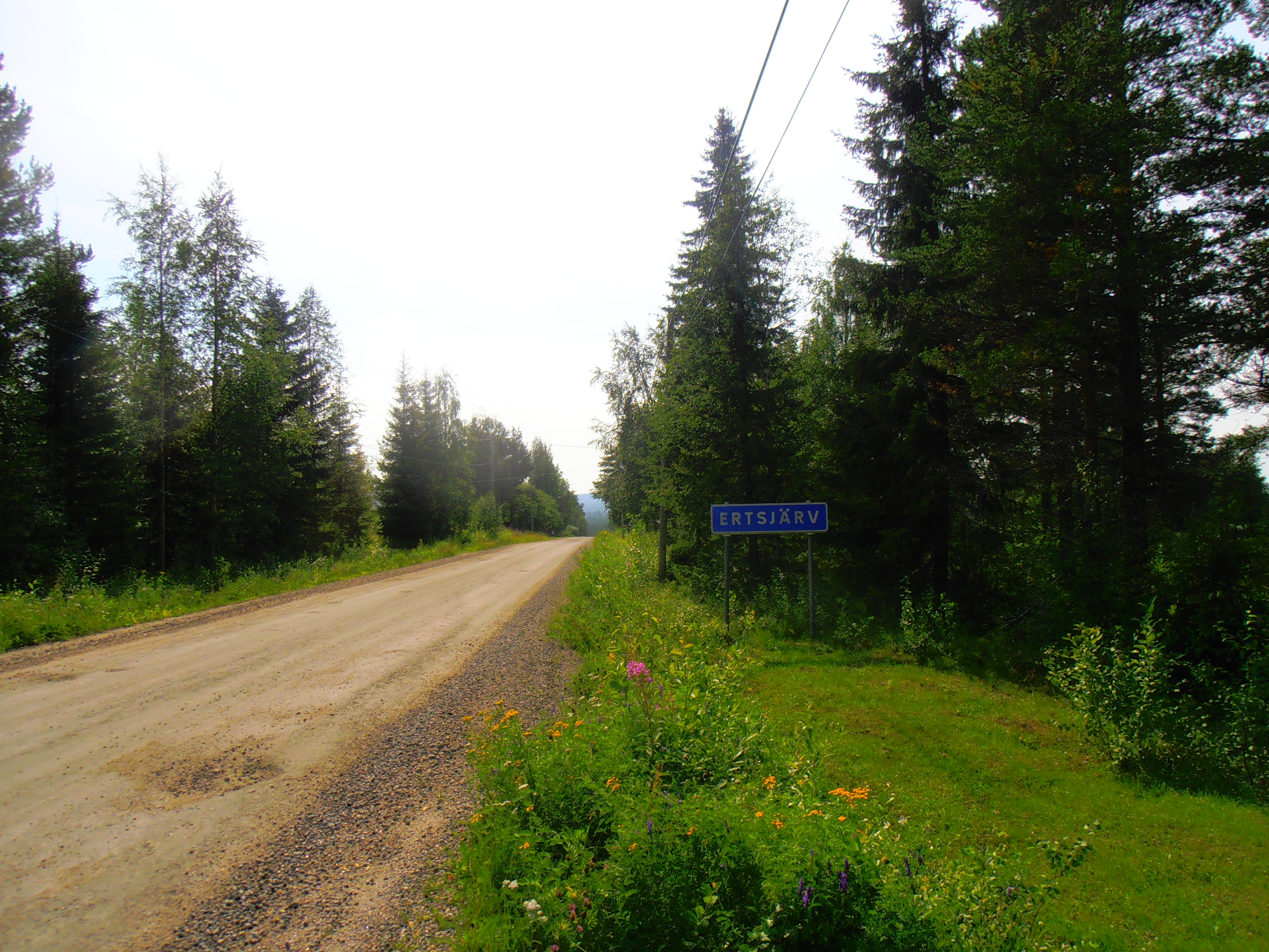 Ertsjärv, Gällivare